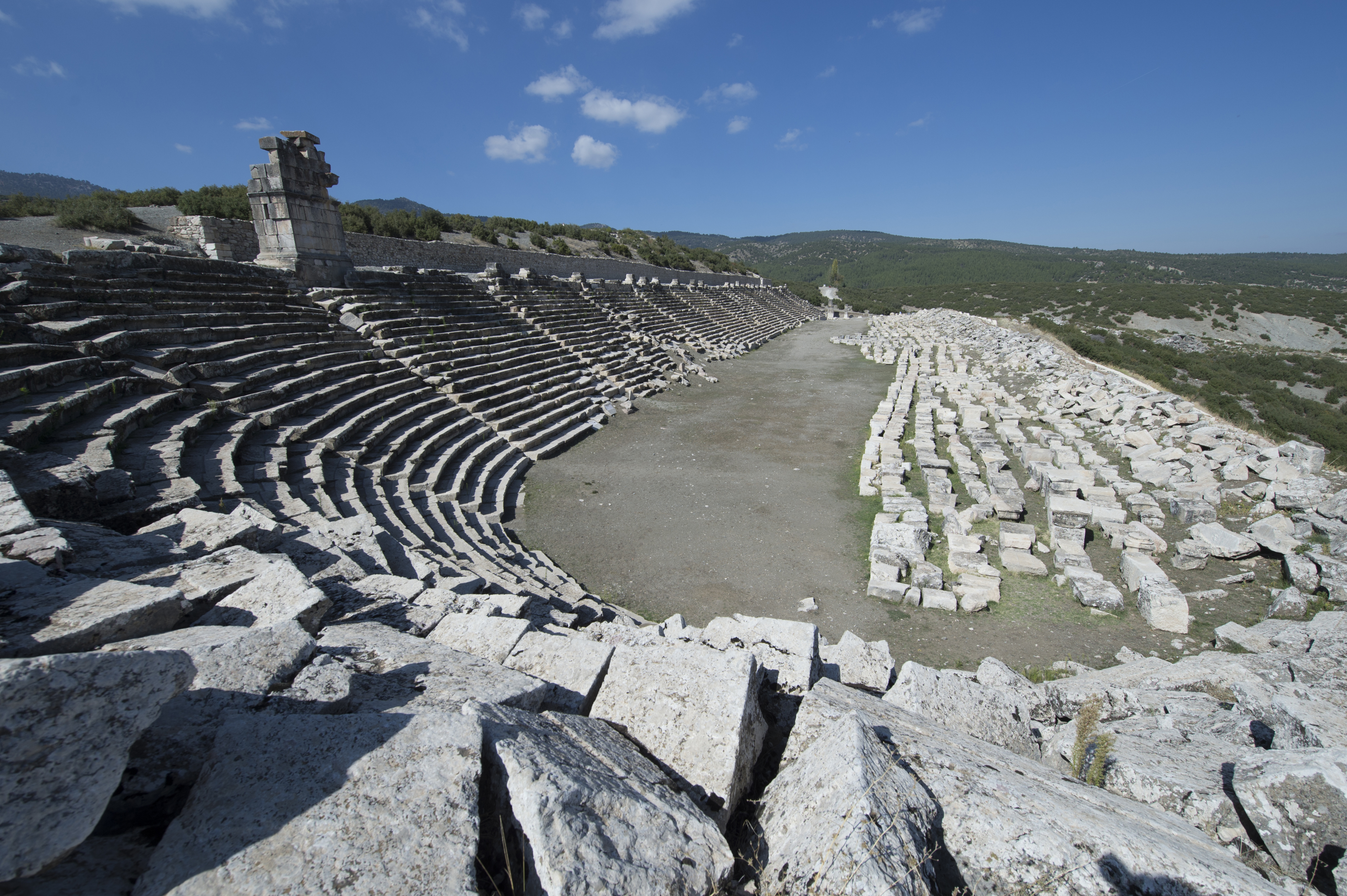 As described in the Wikipedia article the stadium has one theatre-like part with seats that form a half-circle, this is that side.